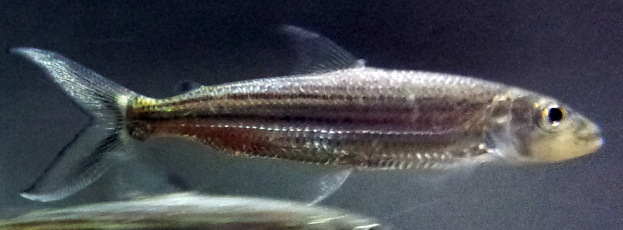 A young, 2.75 inch Hydrocynus tanzaniae. To the best of my knowledge, this fish is the first one brought into the US.